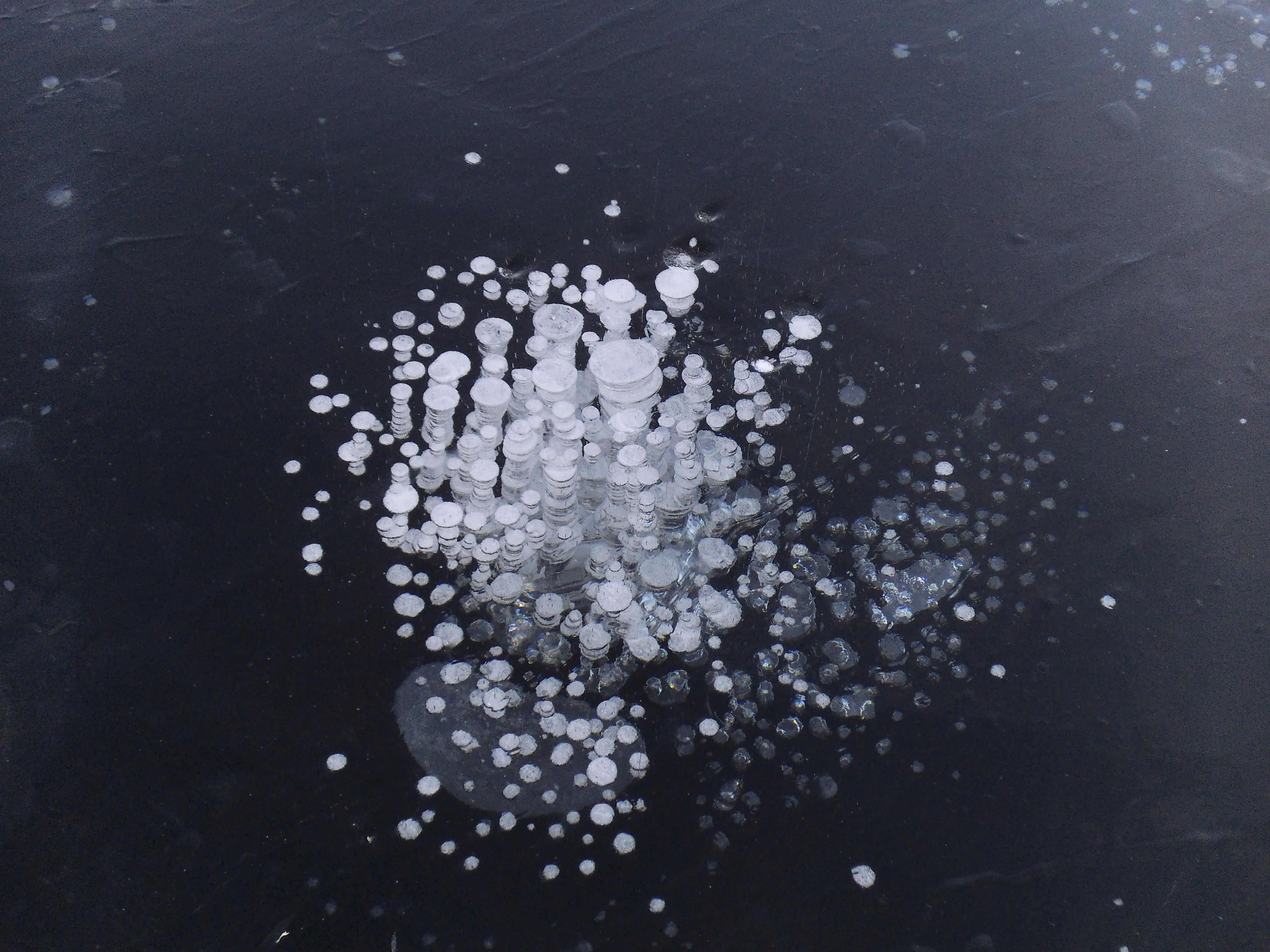 Air bubbles in ice.